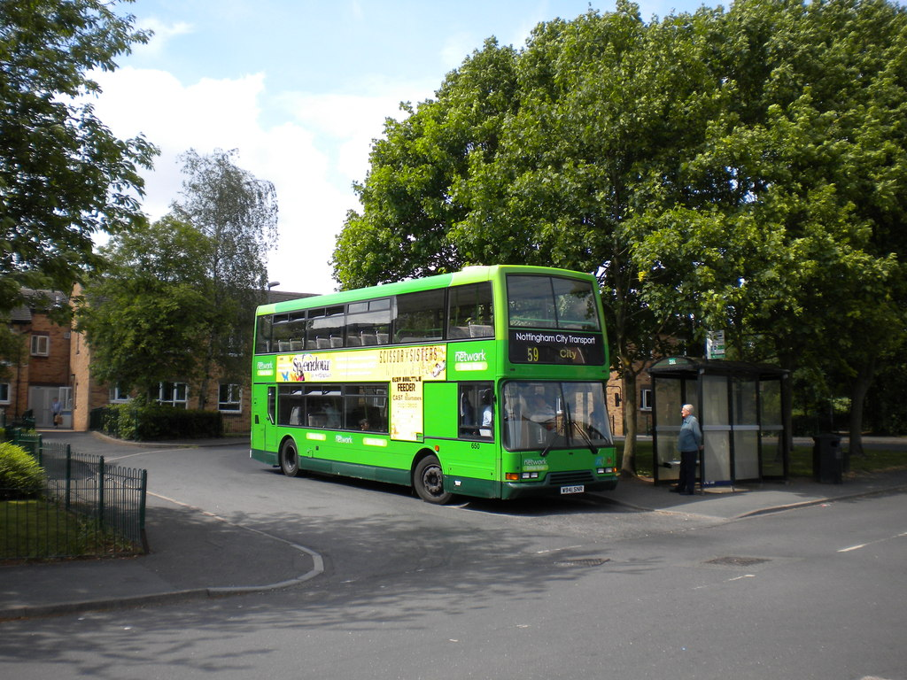 A Nottingham City Transport bus at the exit of the turning circle at Killisick terminus in Killisick Road, Arnold, Nottinghamshire. It is on route 59 to Nottingham city centre. The bus is a Dennis Trident with East Lancs Lolyne body, registration mark W941 SNR, fleet number 650.